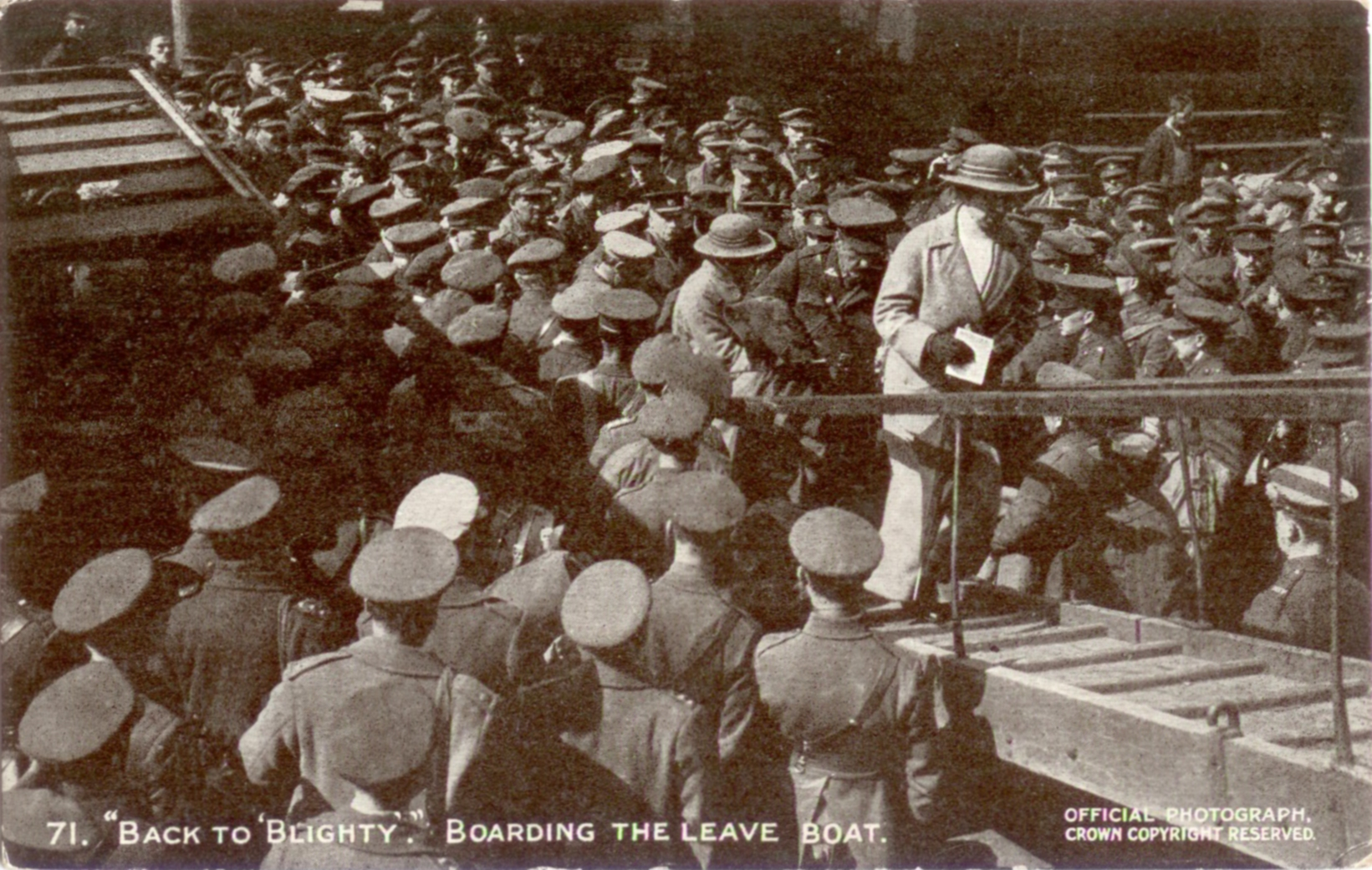 World War I Daily Mail Official War Photograph, Series IX, No. 71, titled "Back to 'Blighty'. Boarding the leave boat". The obverse carries the following information: "Passed by Censor" and "The Leave-Boat will be a great memory of the war for our soldiers to whom a trip home from "blood and mud" has been an unspeakable joy".